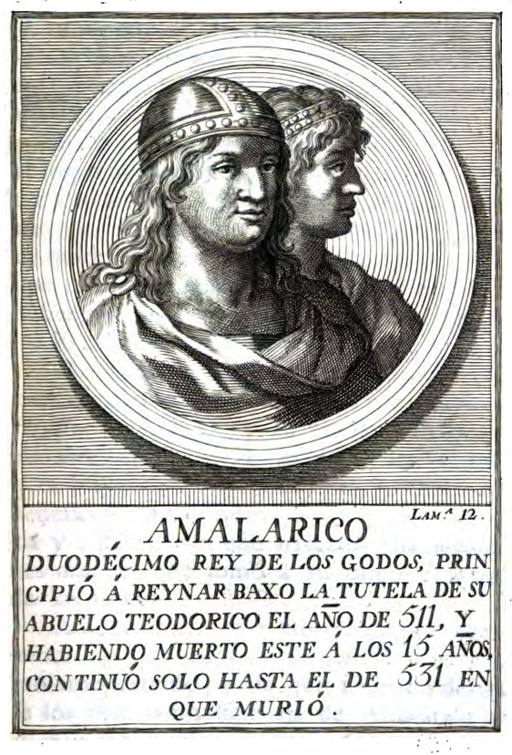 A poster of AMALARICO, Visigoth king, n° 12 in the chronological order of the book digitalized by Google since the bookshop in the University of Oxford.